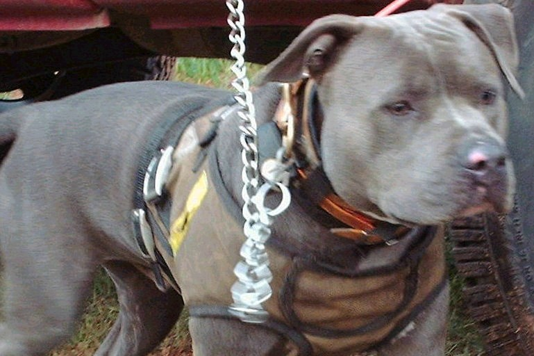 A "pitbull"(Amstaff) Catch dog, wearing a kevlar vest and protection collar.